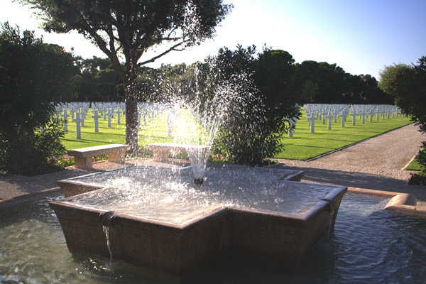 Fountain amid grave plots of the North Africa American Cemetery and Memorial in Carthage (Tunisia)